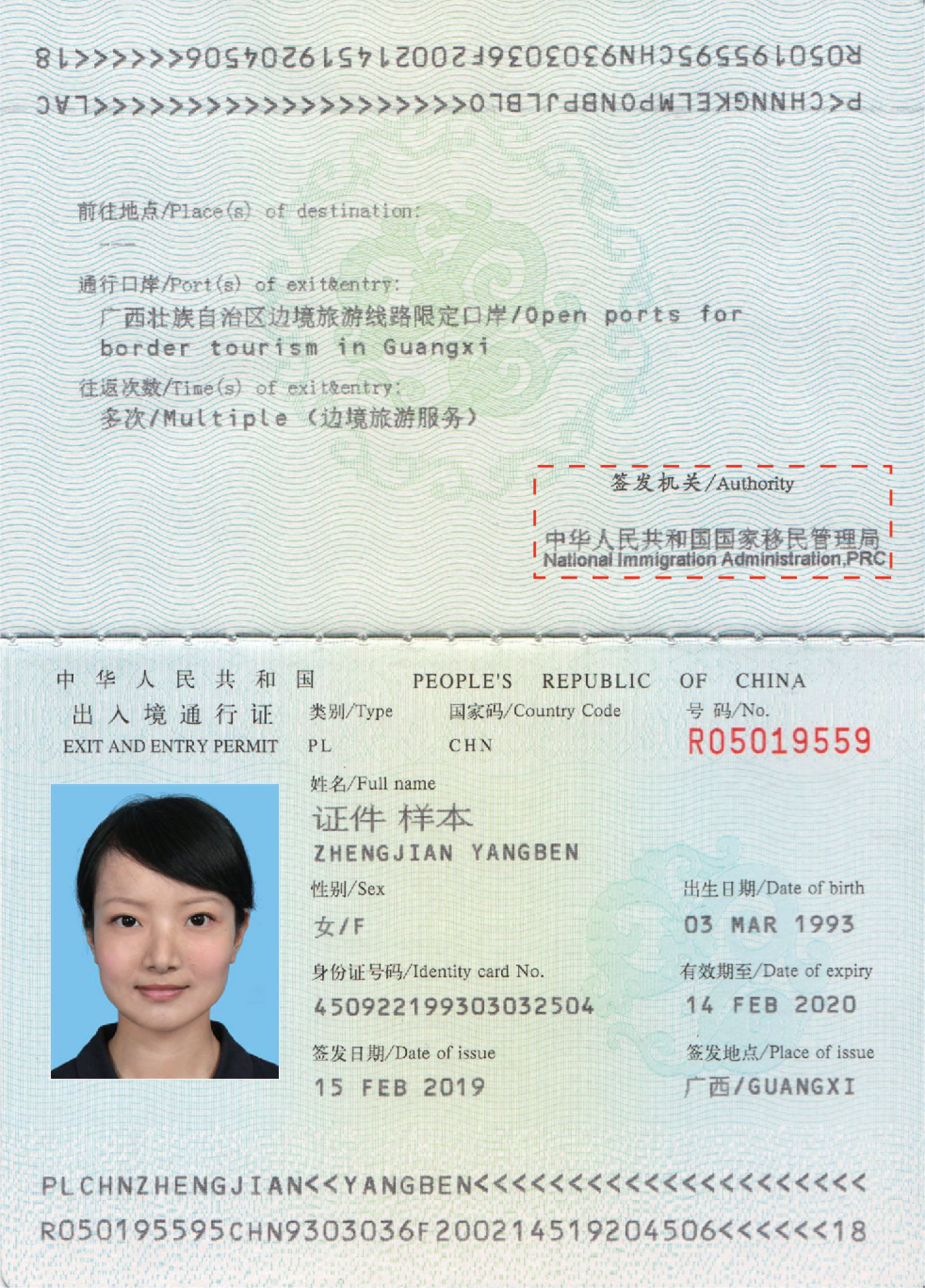 Observations and Personal Info Page of People's Republic of China Entry and Exit Permit